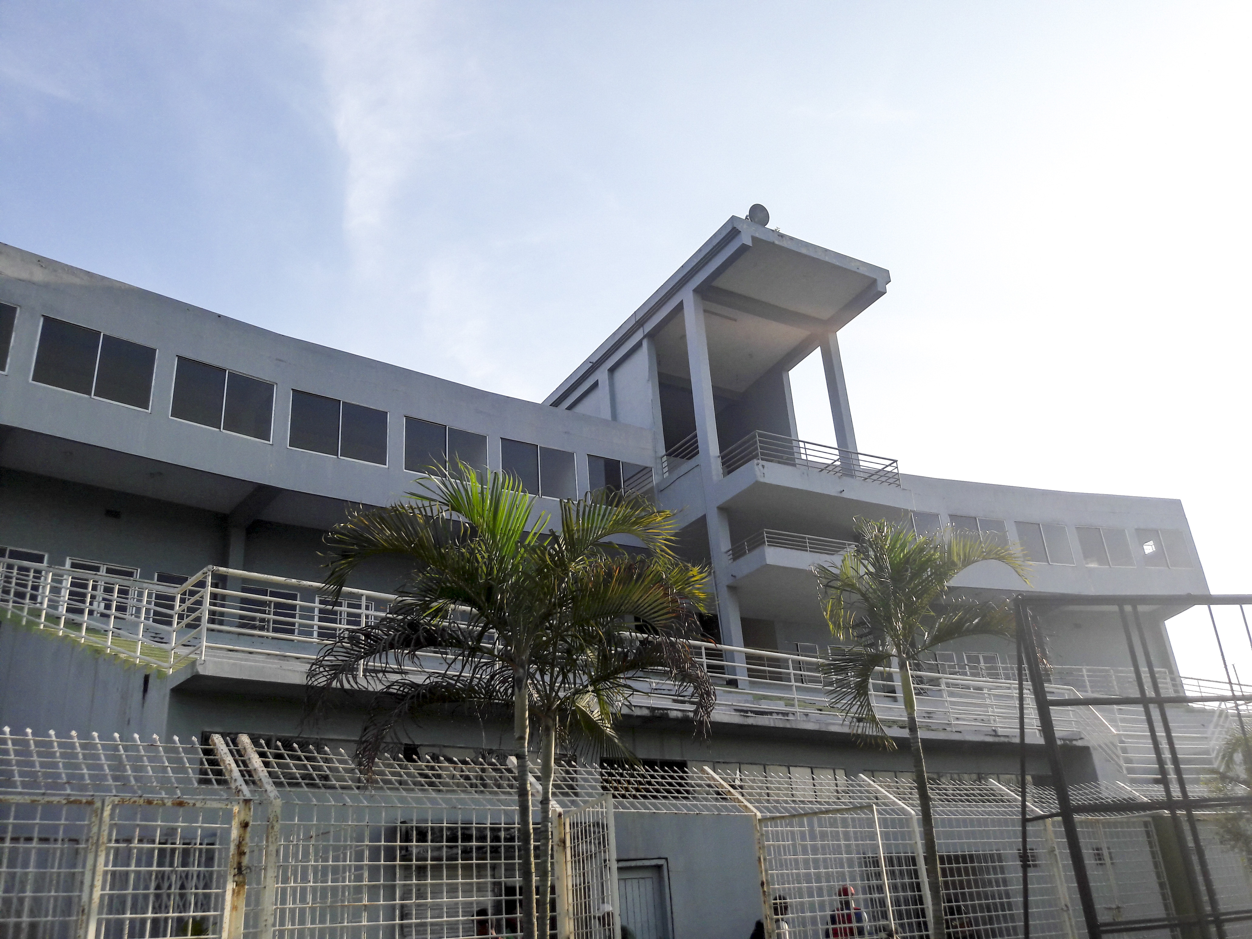 Shaheed A. H. M. Kamruzzaman Stadium, also called Rajshahi Divisional Stadium is a multi-use stadium in Rajshahi, Bangladesh. Shaheed A. H. M. Kamruzzaman Stadium is a multi-use stadium in Rajshahi, Bangladesh.